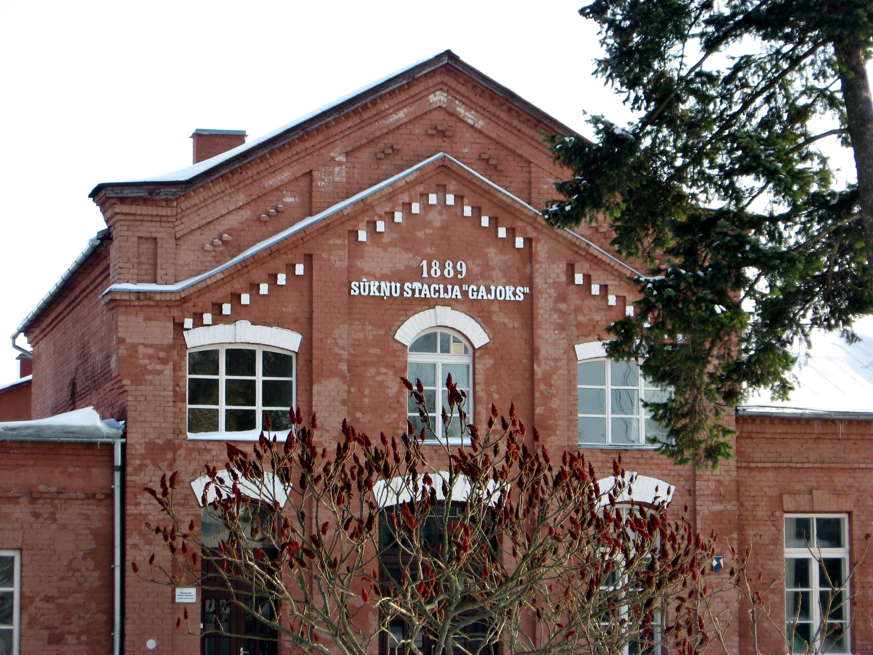 Gajoks (Gayok) pumping station in Daugavpils, now Daugavpils water supply museum.